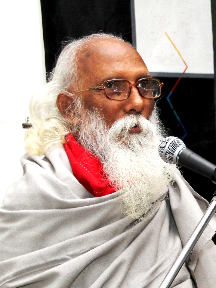 Photo of Poet Nirmalendu Goone of Bangladesh, 2016